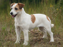 Pārsona Rasela terjers